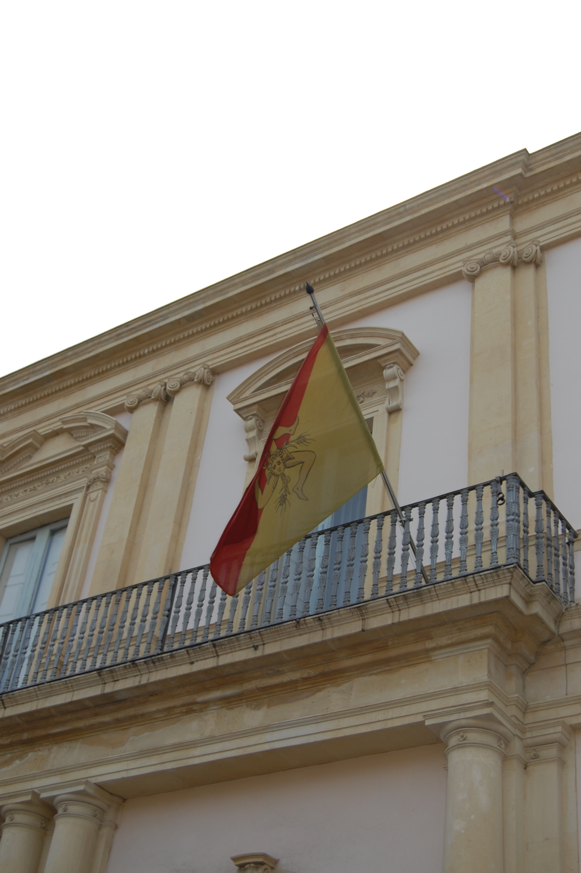 Sicilian flag in the Town Hall of Giarre, Catania, Sicily.